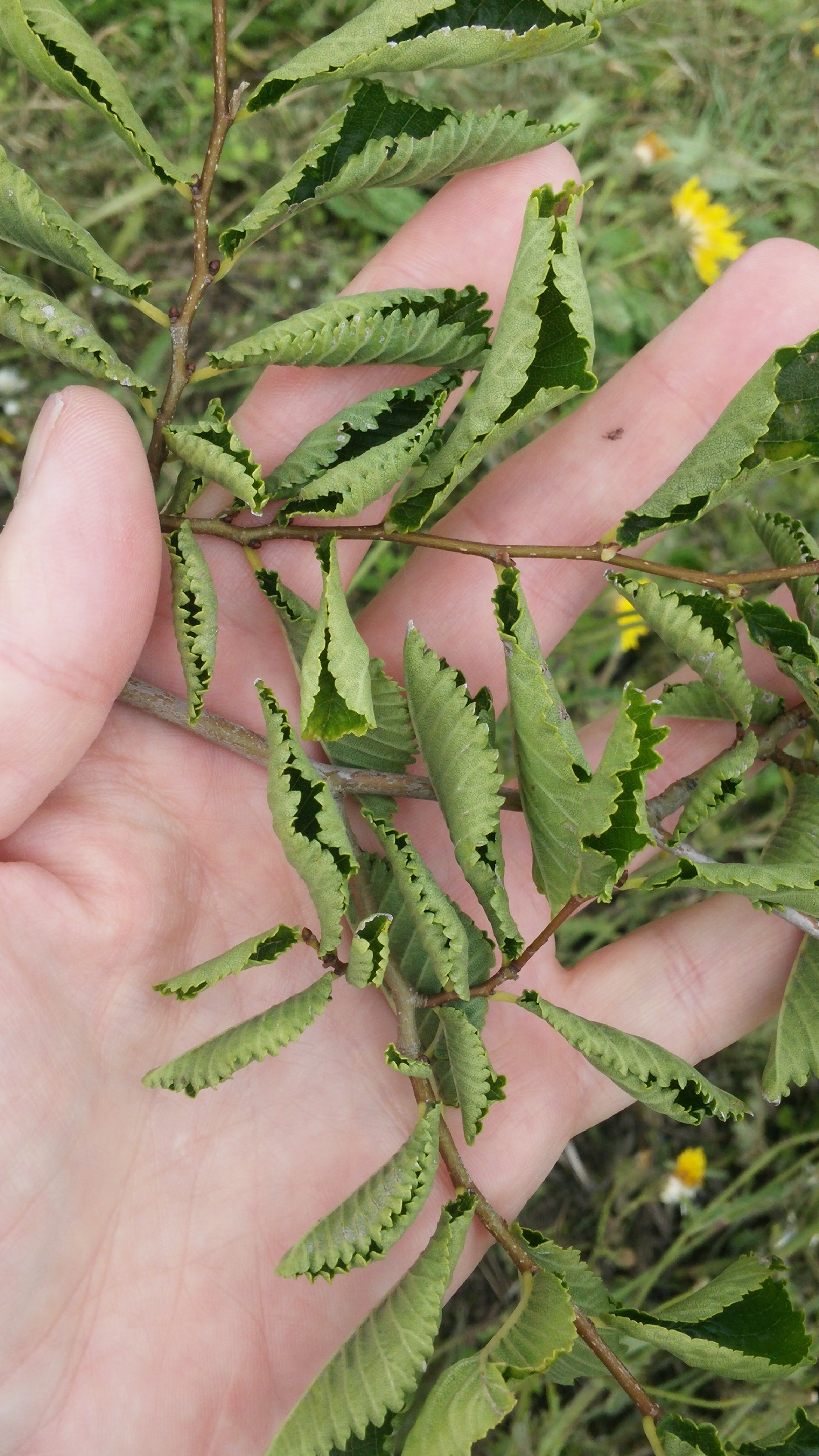 Ulmus minor 'Webbiana' (ex-Szkółki Konieczko, Poland) - Grange Farm arboretum